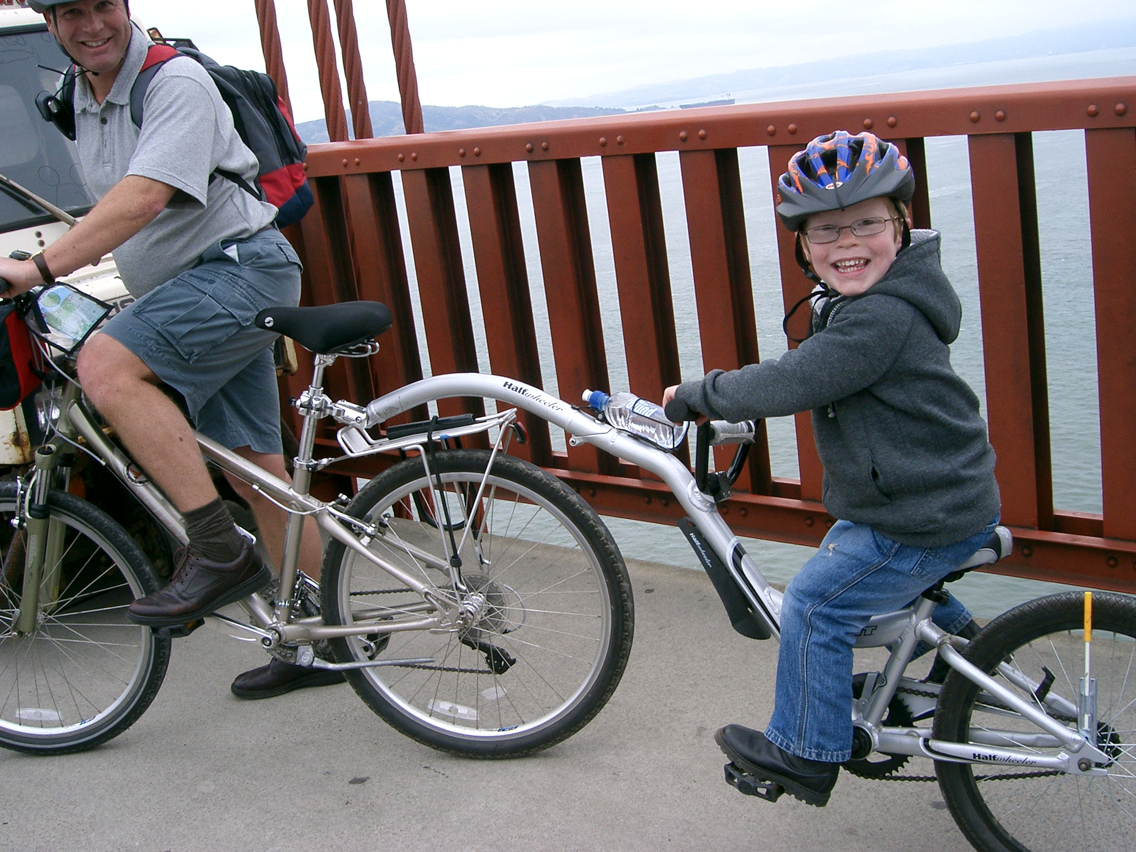 Half Wheeler "is a kids bike that hooks up to an adult bike to help teach kids to balance" - San Francisco - Golden Gate Bridge